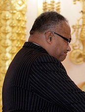 GRAND KREMLIN PALACE, MOSCOW. Presentation by foreign ambassadors of their letters of credence. Ambassador of the Republic of Fiji Isikeli Uluinairai Mataitoga.